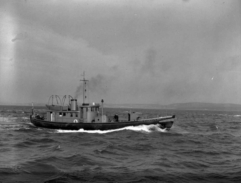 Harbour Craft "Zoarces" of the R.C.N.